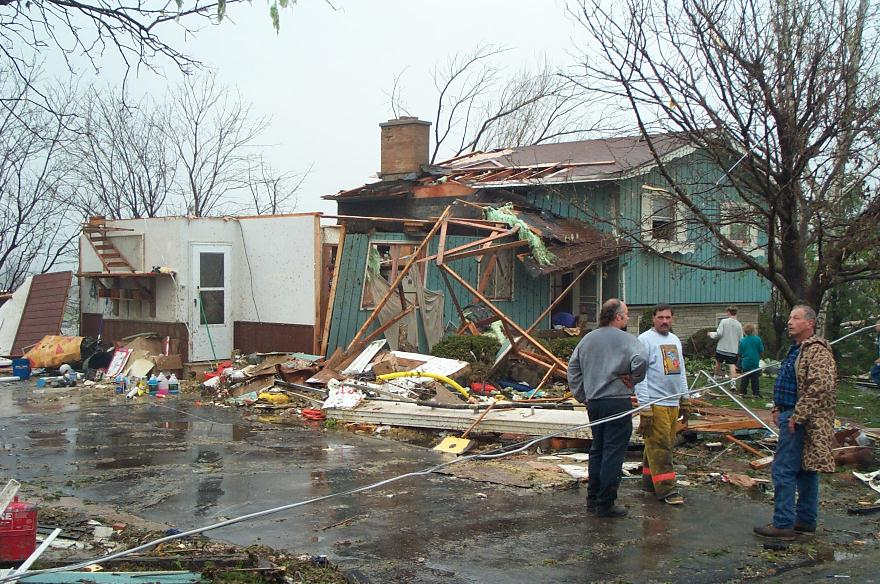 Tornado Damage from the 2000 Storm Wisconsin.